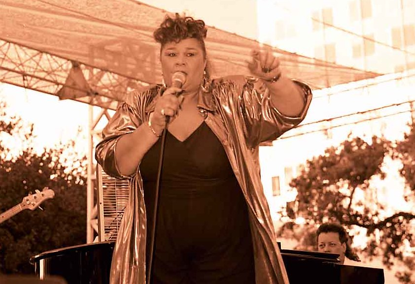 Etta James, 2000 Music in the Park San Jose California